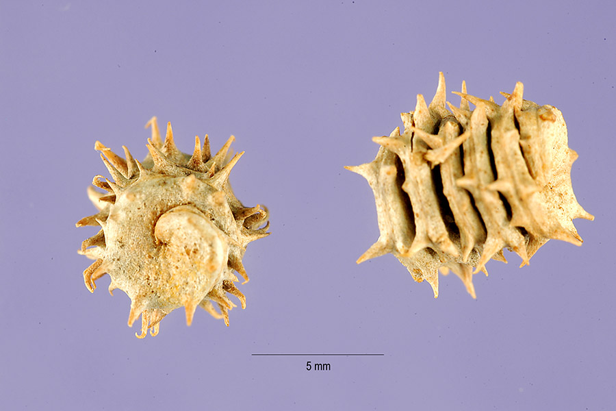 Photograph of Medicago rigidula seed pods.